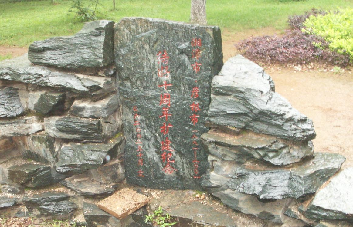 xiang tan city and hikone city 10th anniversary memorial at ju hua tan park